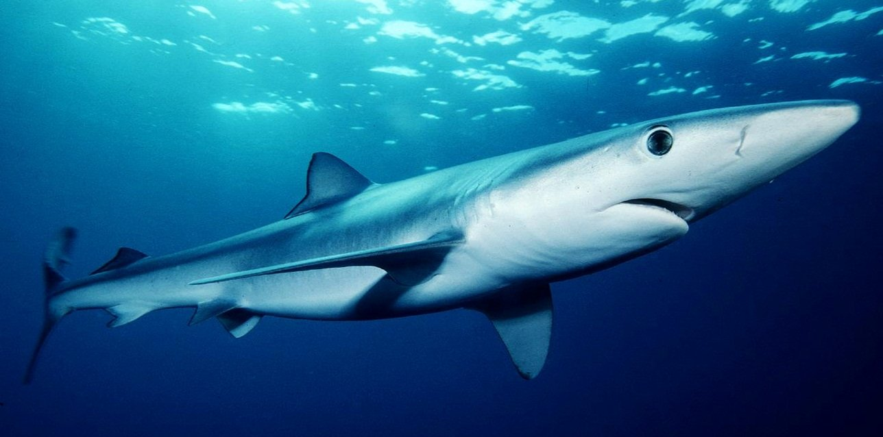 Crop of file in filename